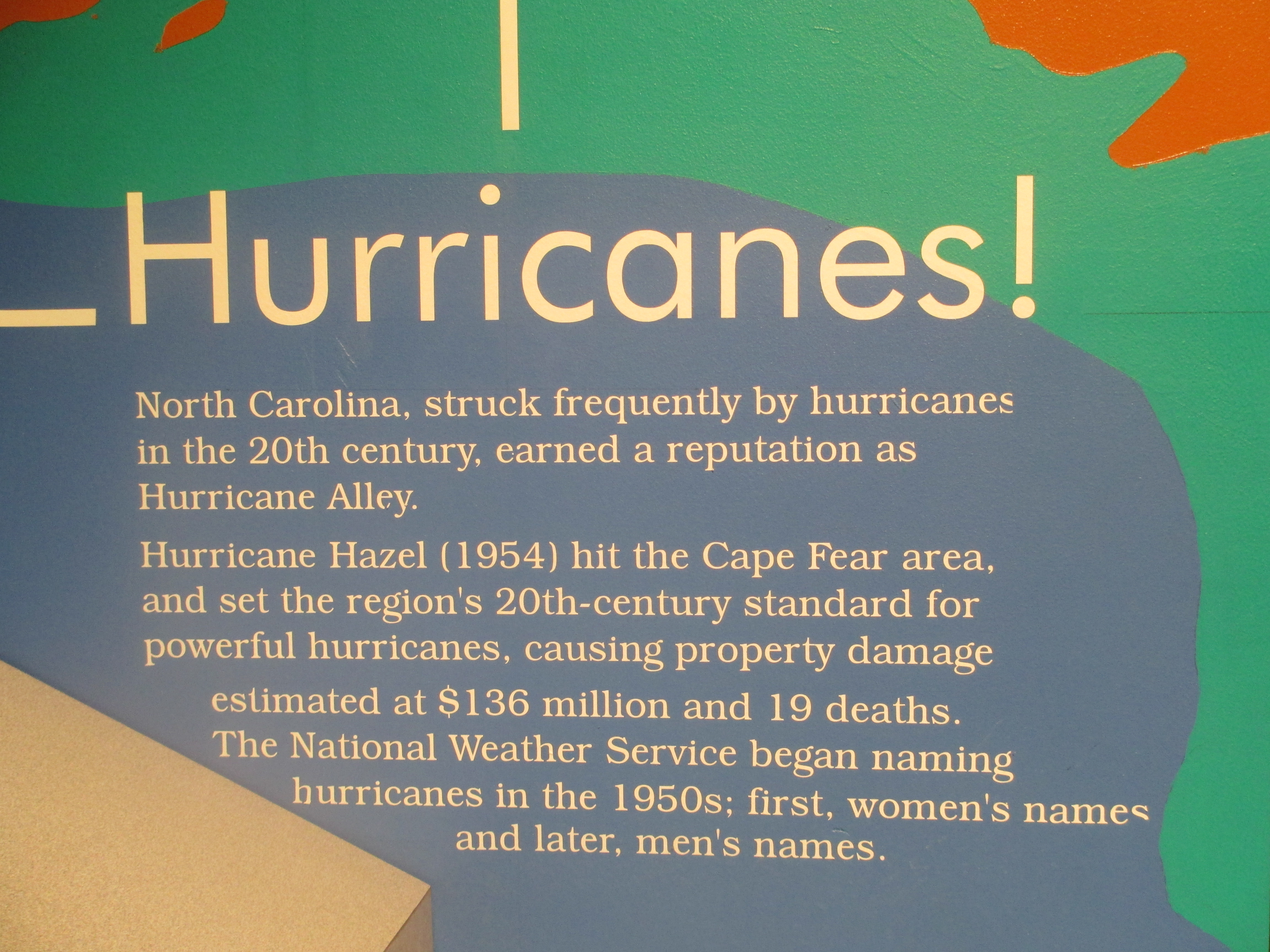 Hurricanes! poster — at the Cape Fear Museum in Wilmington, North Carolina. Credits I took photo with Canon camera.